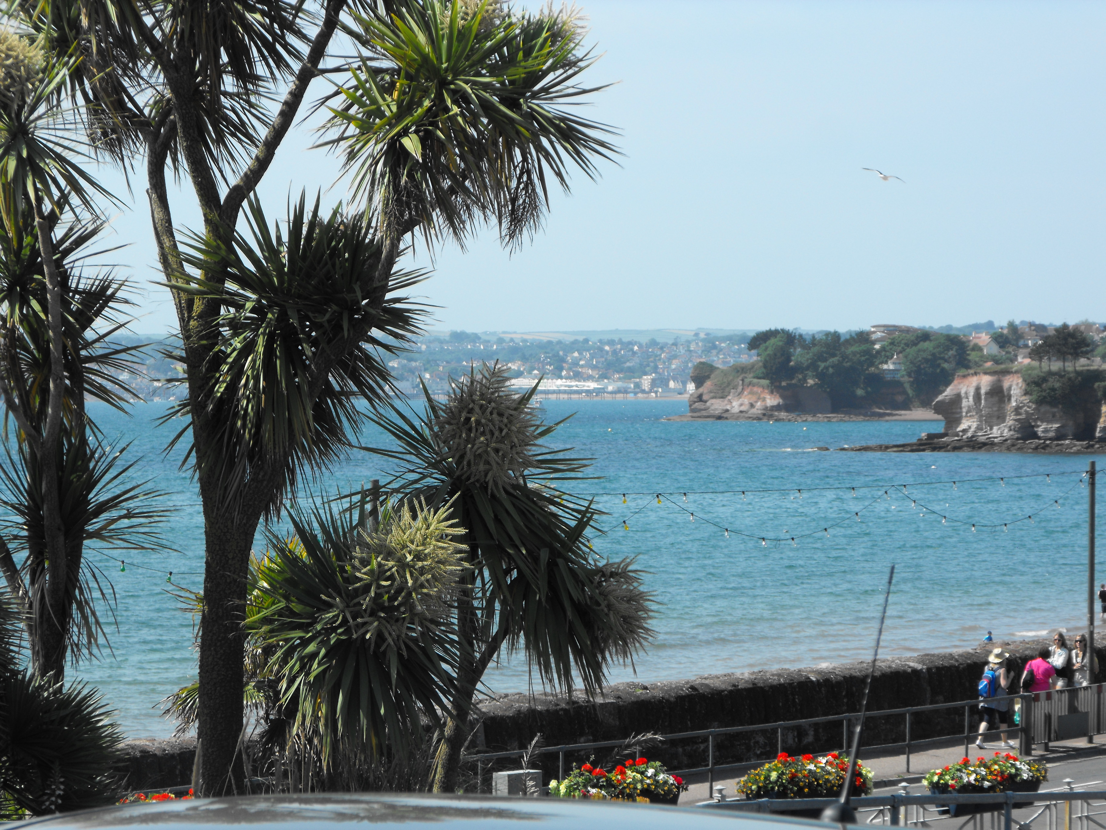 Torbay view from Torquay